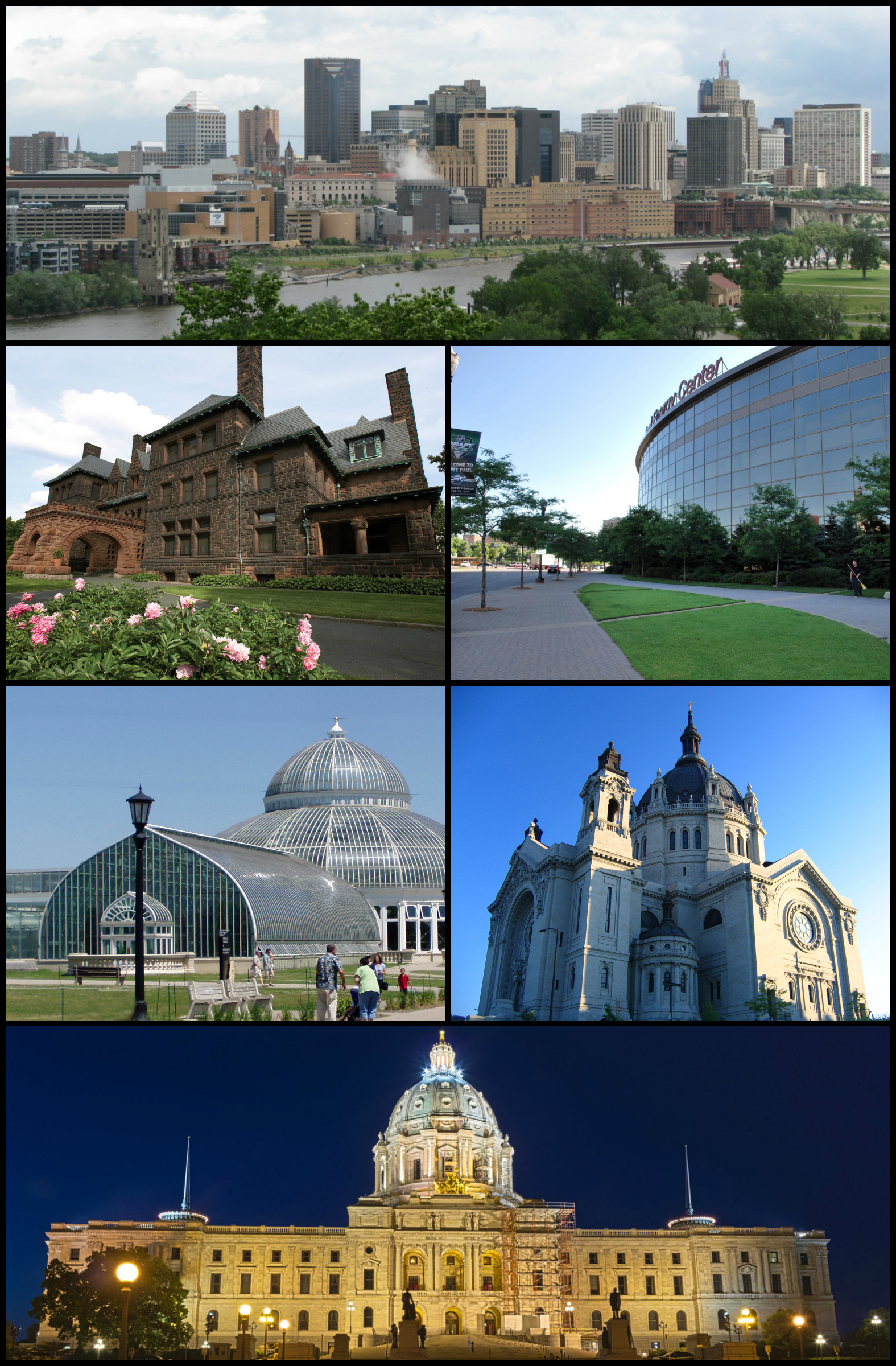 Saint Paul Photo Collage